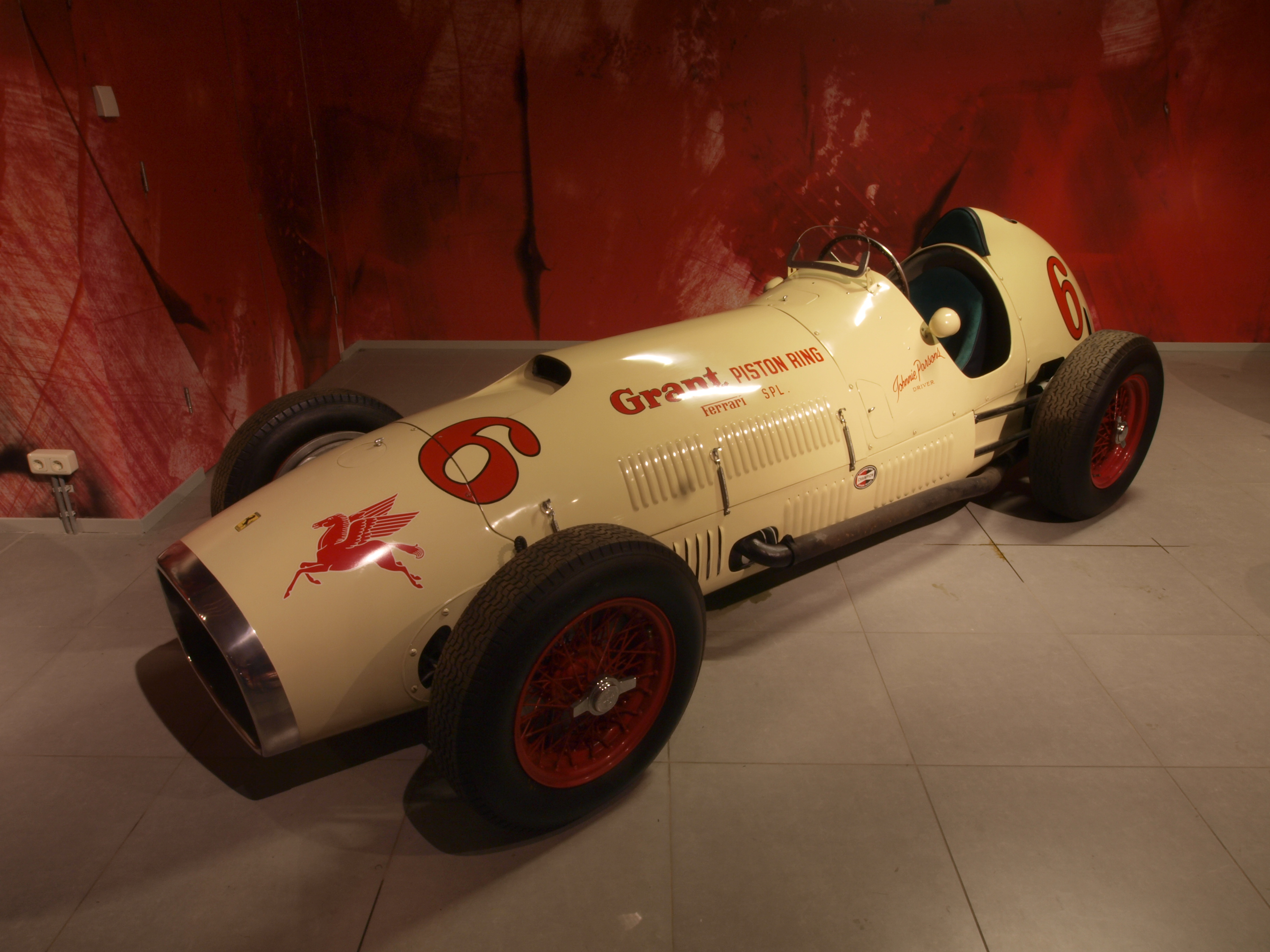 Photographed at the Louwman museum / Louwman Collection, The Netherlands.